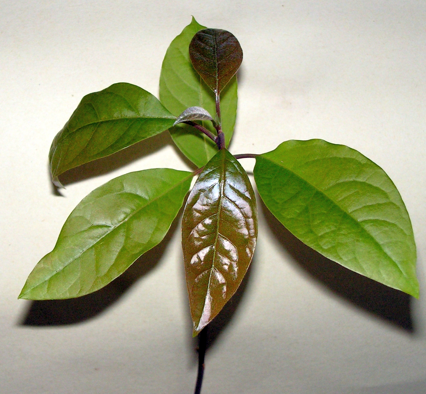 The young sprout of Persea americana.